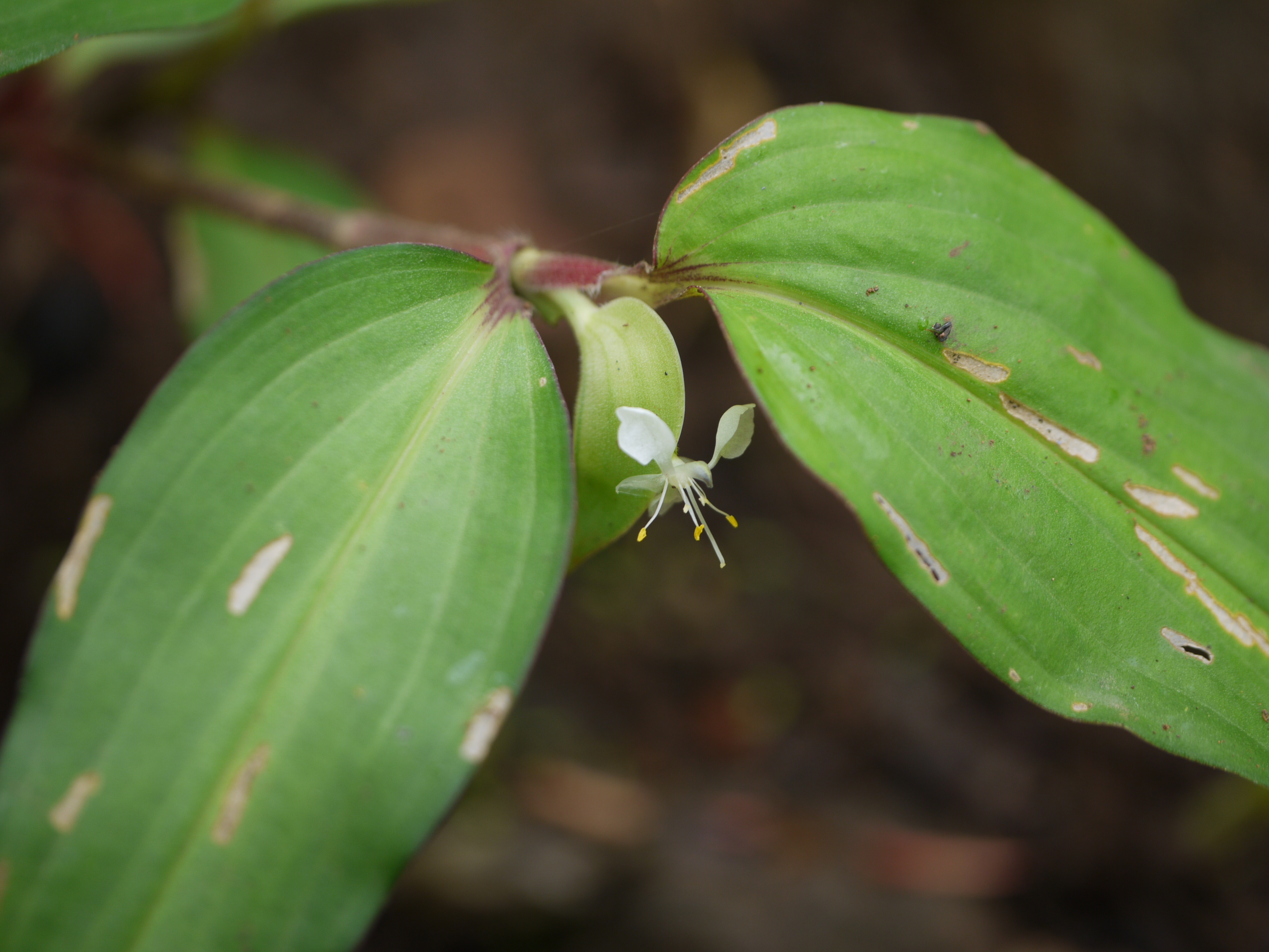 Commelinaceae (dayflower, or spiderwort family) » Commelina suffruticosa kom-uh-LEE-nuh -- named for Dutch botanists: Johan and his nephew Caspar Commelin suf-roo-tee-KO-sa -- meaning, somewhat shrubby commonly known as: shrubby dayflower Native to: s China, Nepal, Bangladesh, India, Indonesia, Thailand, Malaysia Reference: Flowers of India • eFlora